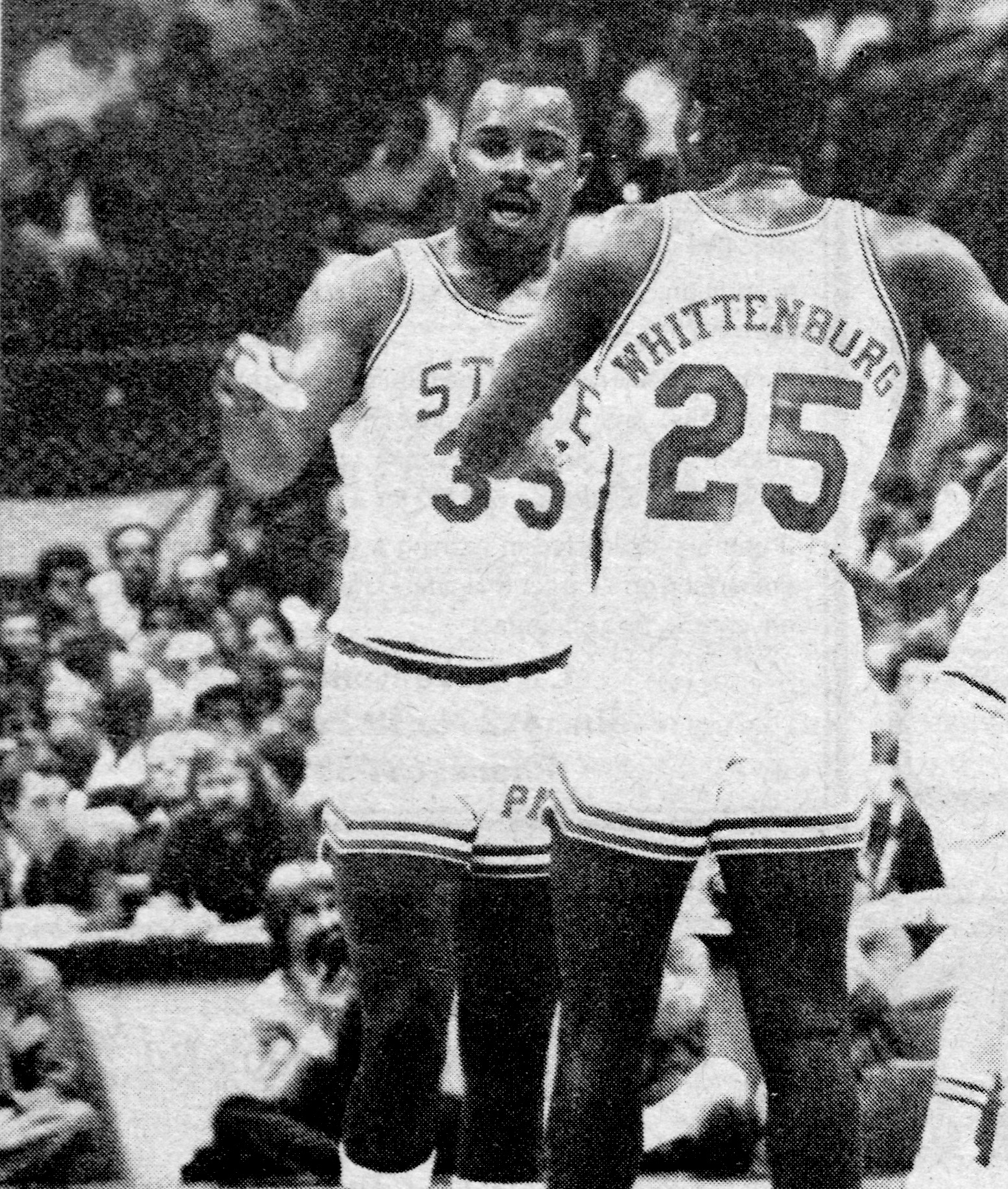 Scanned from the March 14, 1983 issue of The Chronicle, the student newspaper of Duke University